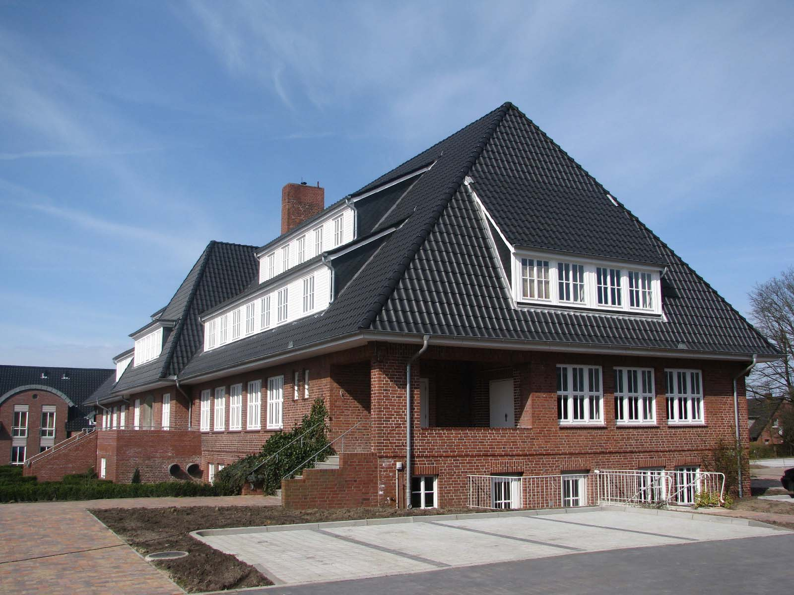 Public Administration Building of the 'Amt Mittleres Nordfriesland'